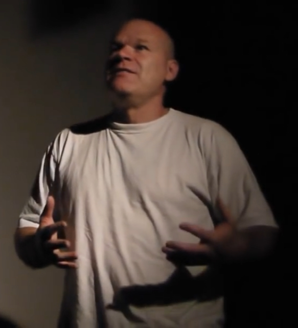 German filmmaker Uwe Boll at a premiere for his film, Rampage 2: Capital Punishment in 2014